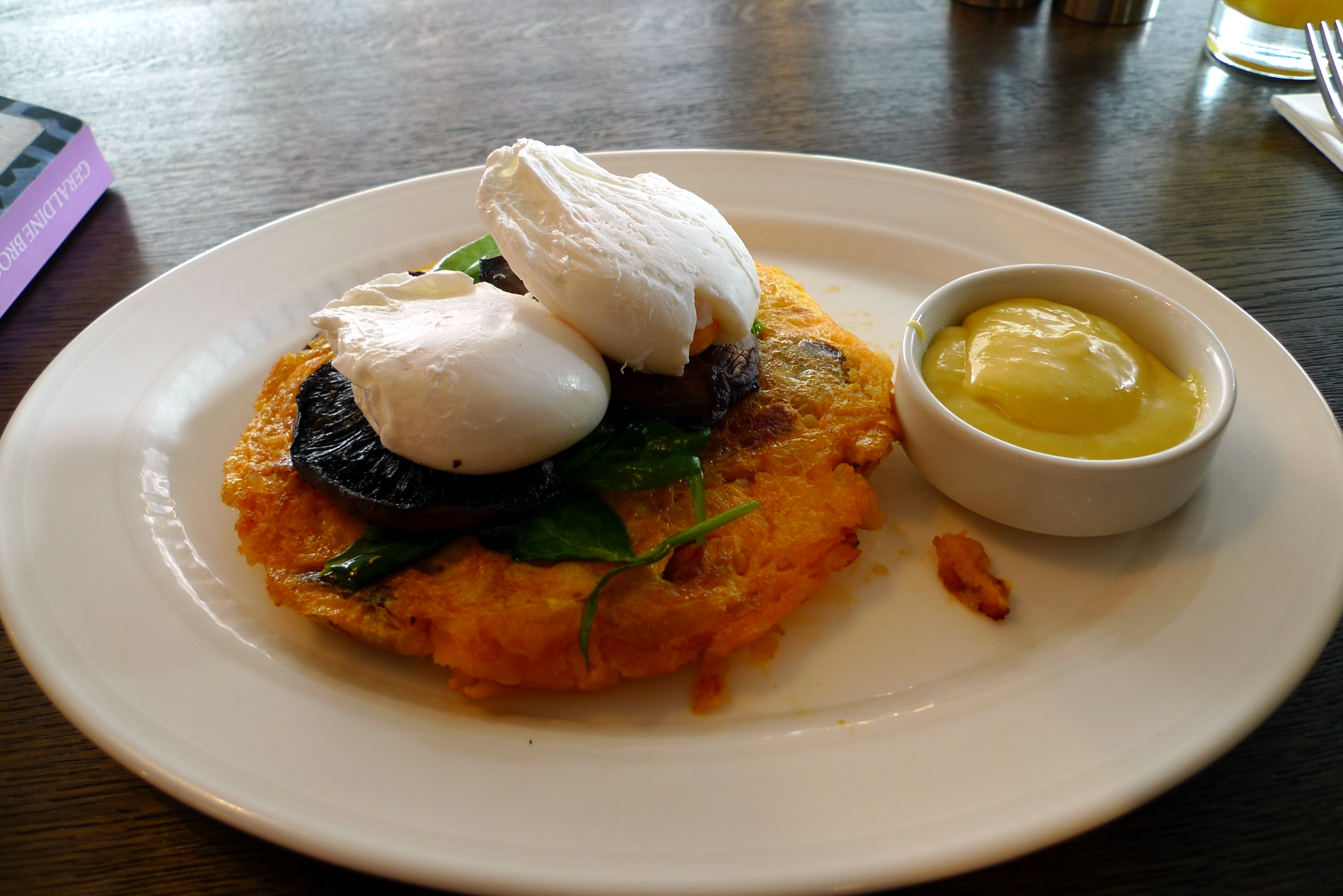 The chorizo hash brown, with big chunks of chorizo and two perfect poached eggs on top. Mushrooms as well, also excellent, and some hollandaise. It's fair to say, I liked this. At The Riding House Cafe, Great Titchfield Street.